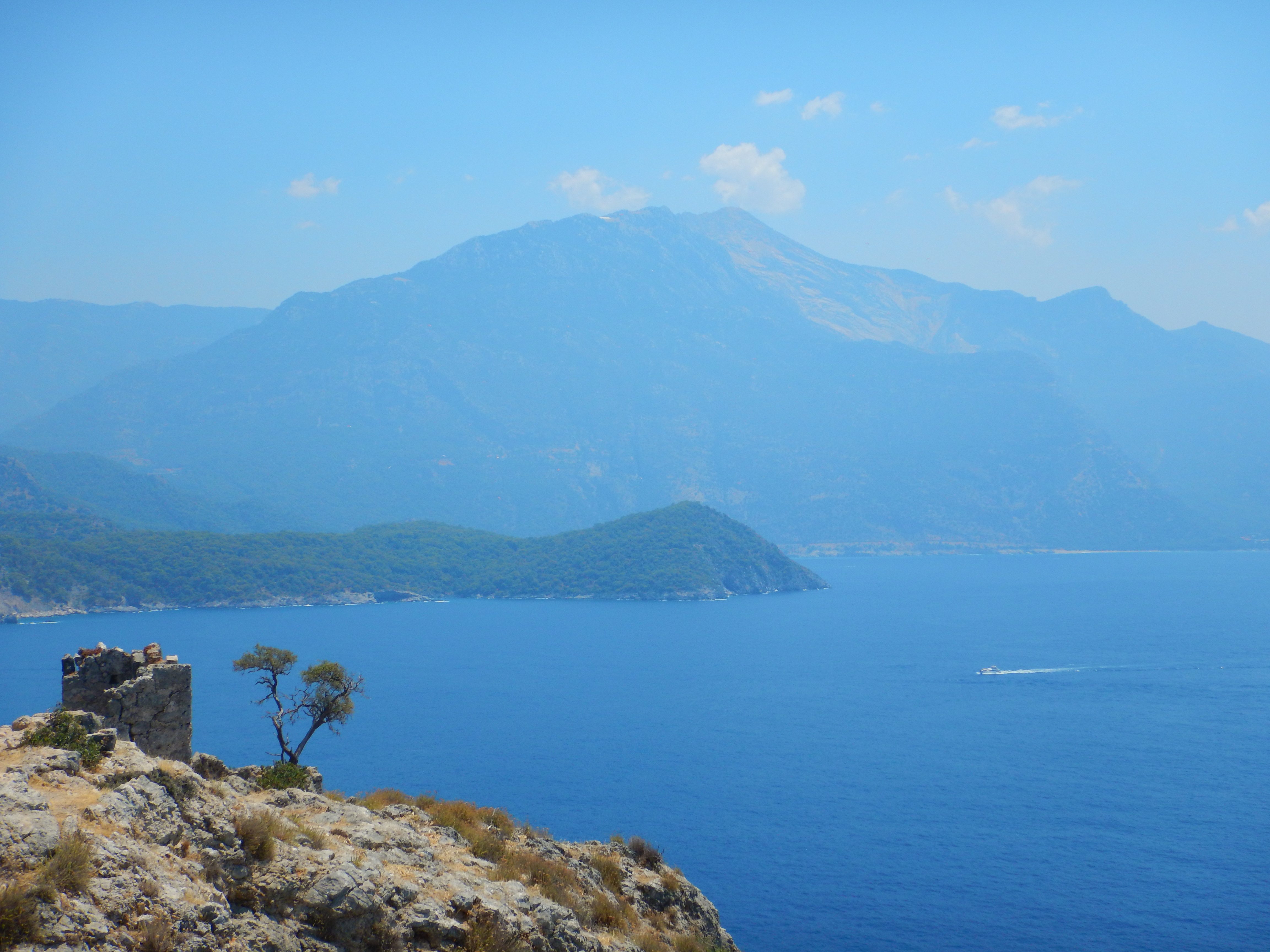 The Babadağ seen from top of Gemiler Island